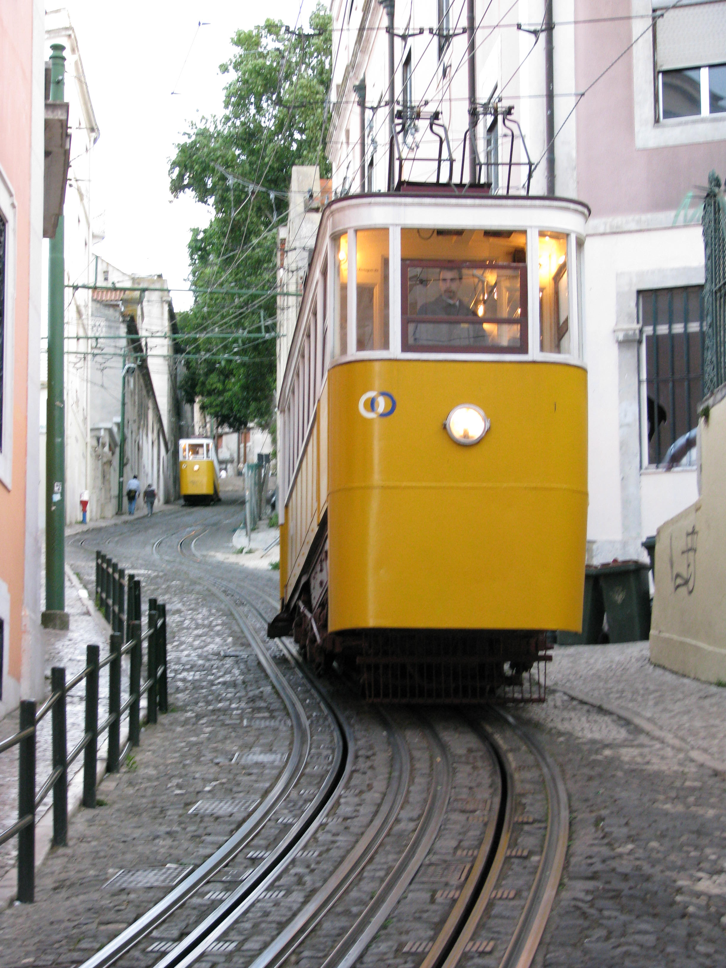 Glória Funicular, Lisbon, Portugal